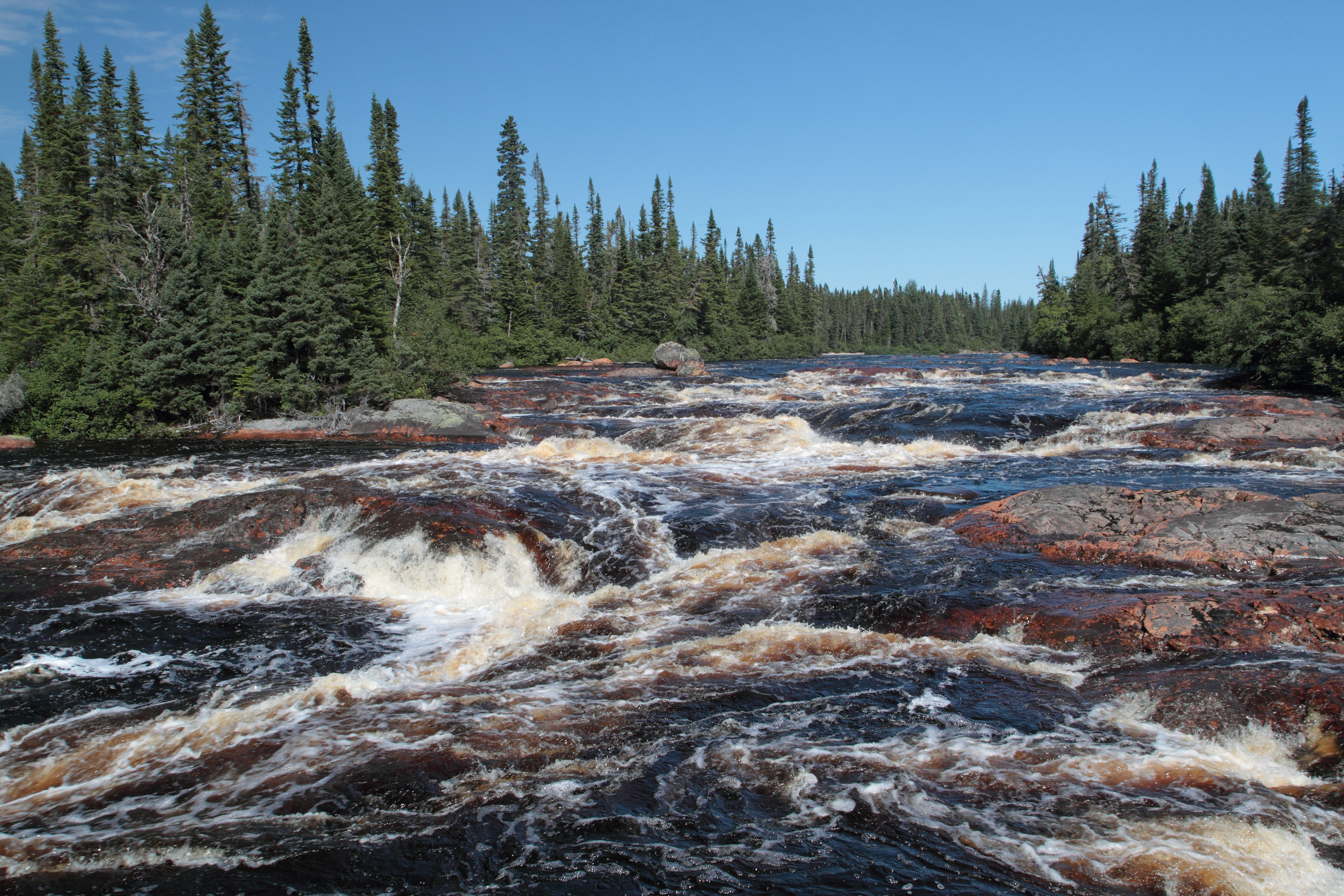 Matamec river, Quebec, Canada (not to confuse with Matamek river 100km farther east)